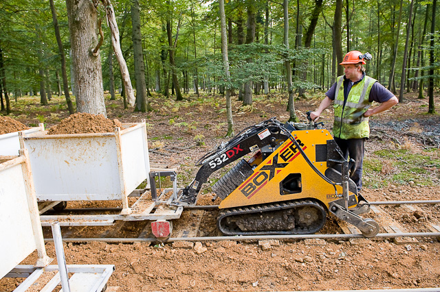 Warwickslade Cutting: running the railway